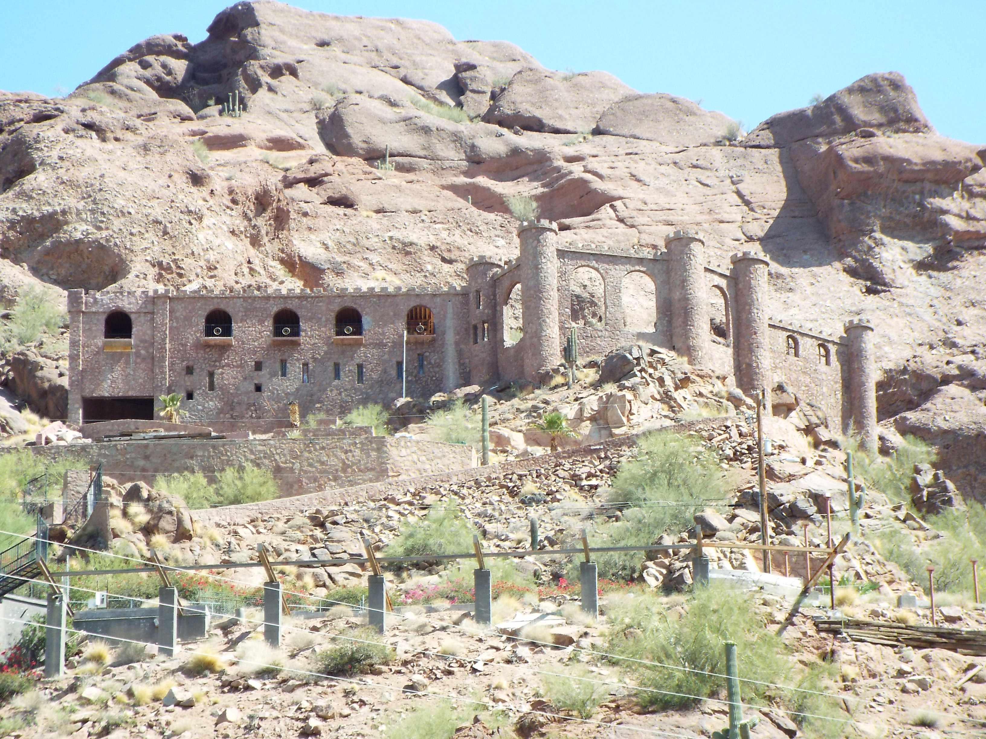 The construction of the Camelback Castle/Copenhaver Castle began in 1967 was finished in 1977. The castle is located at 5050 E. Red Rock Dr. in Phoenix, Az. The architectural style of the castle is that of medieval Moorish. The castle has a dungeon, a drawbridge and a moat as well.Copenhaver Castle